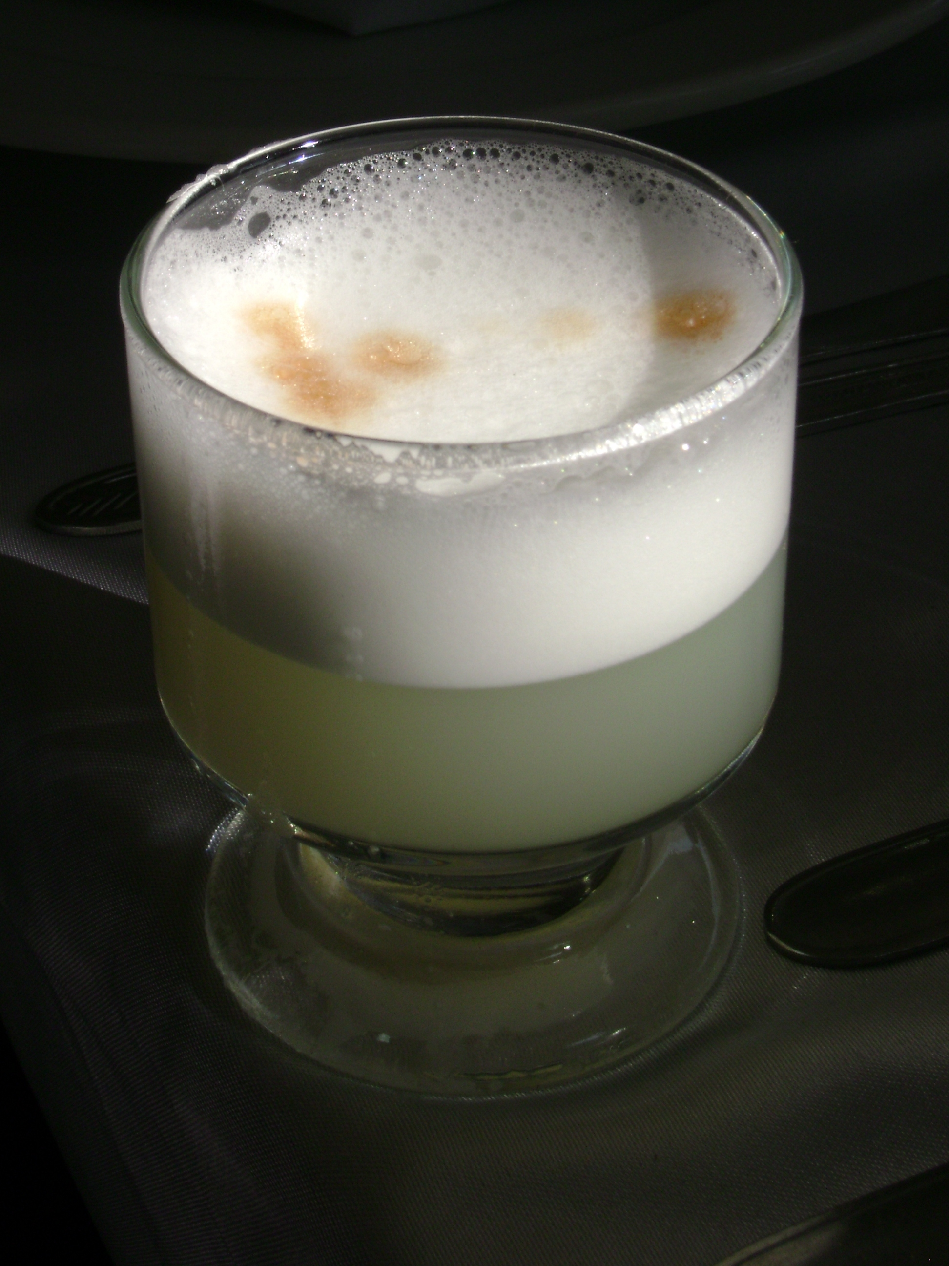 Another view of traditional Pisco Sour of Peru